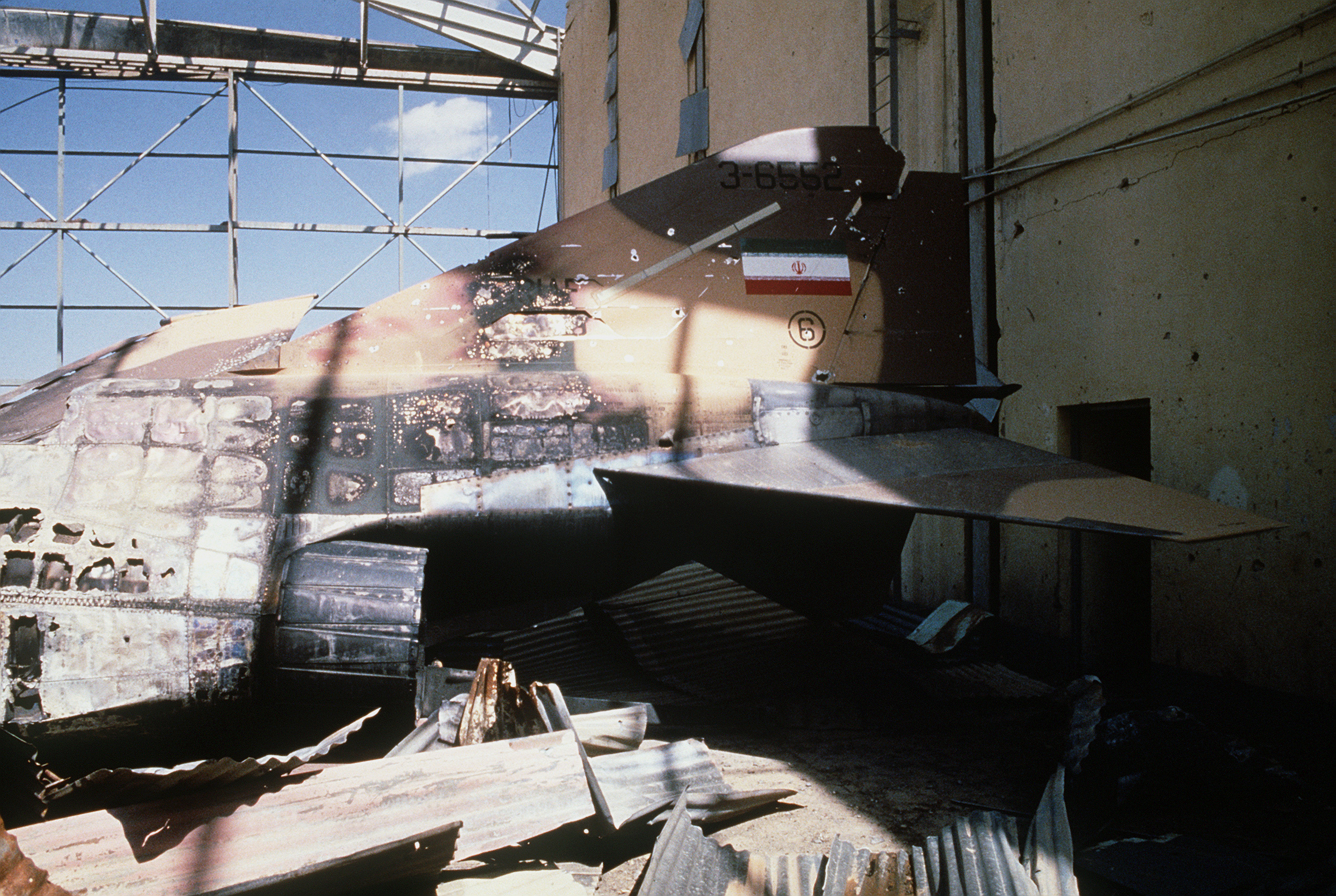 A McDonnell Douglas F-4E Phanton II at Tallil air base, near Nasiriya, Iraq, on 12 February 1991. This aircraft was originally delivered to Iran in 1973 (serial 3-6552 and Iranian flag are still visible). In late August/early September 1986 it was one of two F-4Es flown by defecting Islamic Republic of Iran Air Force pilots to Iraq. This was part of the covert operation “Night Harvest” by the Foreign Technology Division of the U.S. Air Force (FTD) and the CIA, initiated to find out how Iran kept aircraft serviceable that had been delivered by the U.S. The other F-4E was flown to the U.S. but this aircraft was in such poor condition that it was left in Iraq. It was destroyed by bombs during the 1991 Gulf War, but the wreck was still in a junkyard near Tallil air base in April 2003.[1]